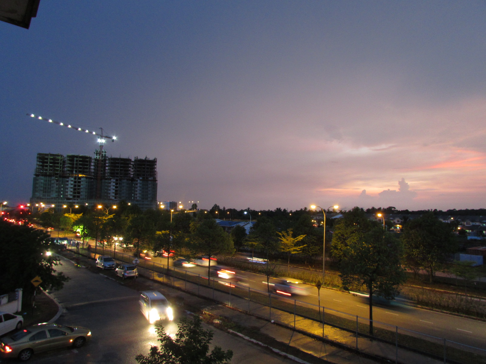 This shot was taken rather spontaneously, as I had not plan to go sunset chasing today. It was raining for a good hour or so, and the haze cleared up slightly. Just before sunset, I noticed that the clouds started turning orange, and I did remember a friend mentioning that sometimes vivid colors play out after the rain. I managed to scramble to the balcony to get some shots. Though it wasn't totally stunning, this was one of the better sunsets seen in Kampar for a few weeks. The night lights were made prettier with the rush hour traffic from UTAR, as well as from the spotlights on the tower crane working on the neighbouring Westlake Villas condo.